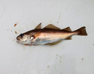 A large poor cod